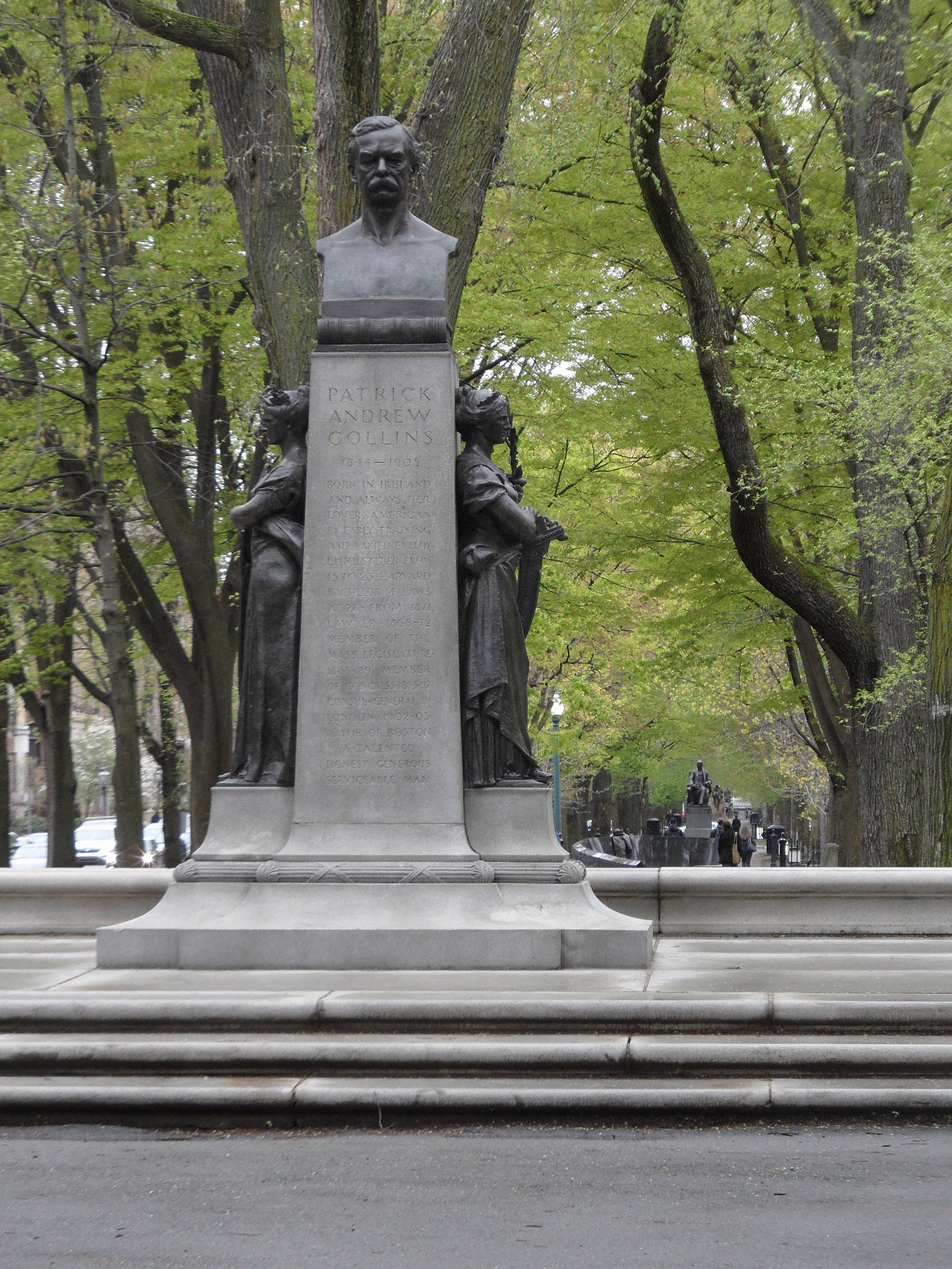 Boston, MA - Back Bay: Patrick Andrew Collins Memorial, Commonwealth Avenue Mall, looking southwest; in May 2019